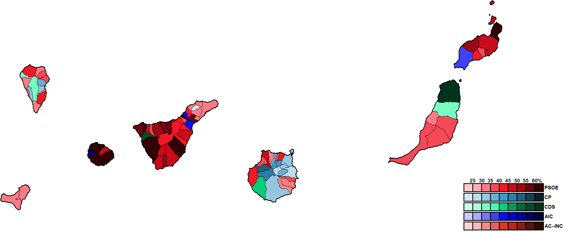 Most-voted party in Canary Islands municipalities, showing vote share obtained, in the Spanish general election, 1986.